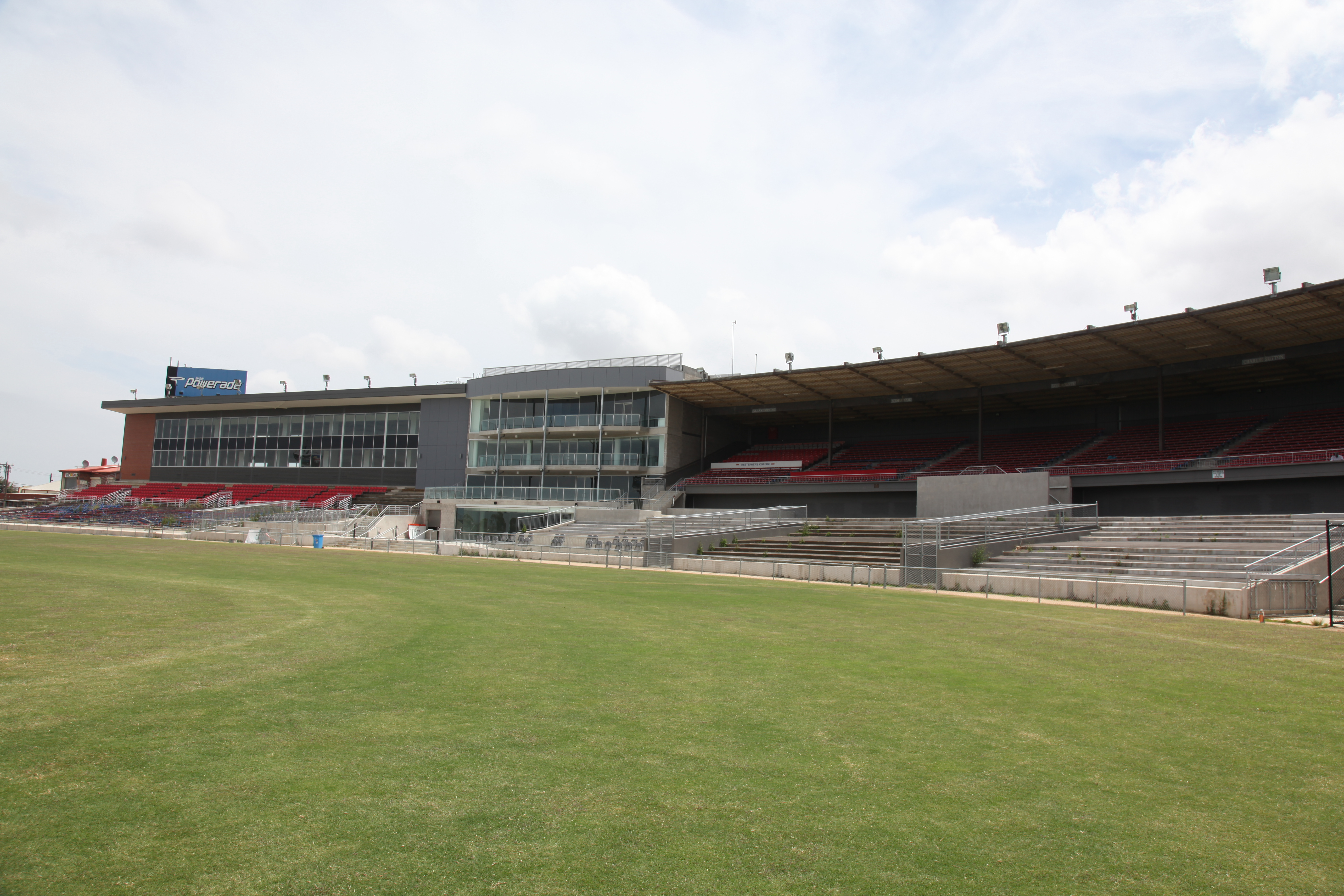 The Whitten Oval, the Western Bulldogs' administrative and training headquarters.